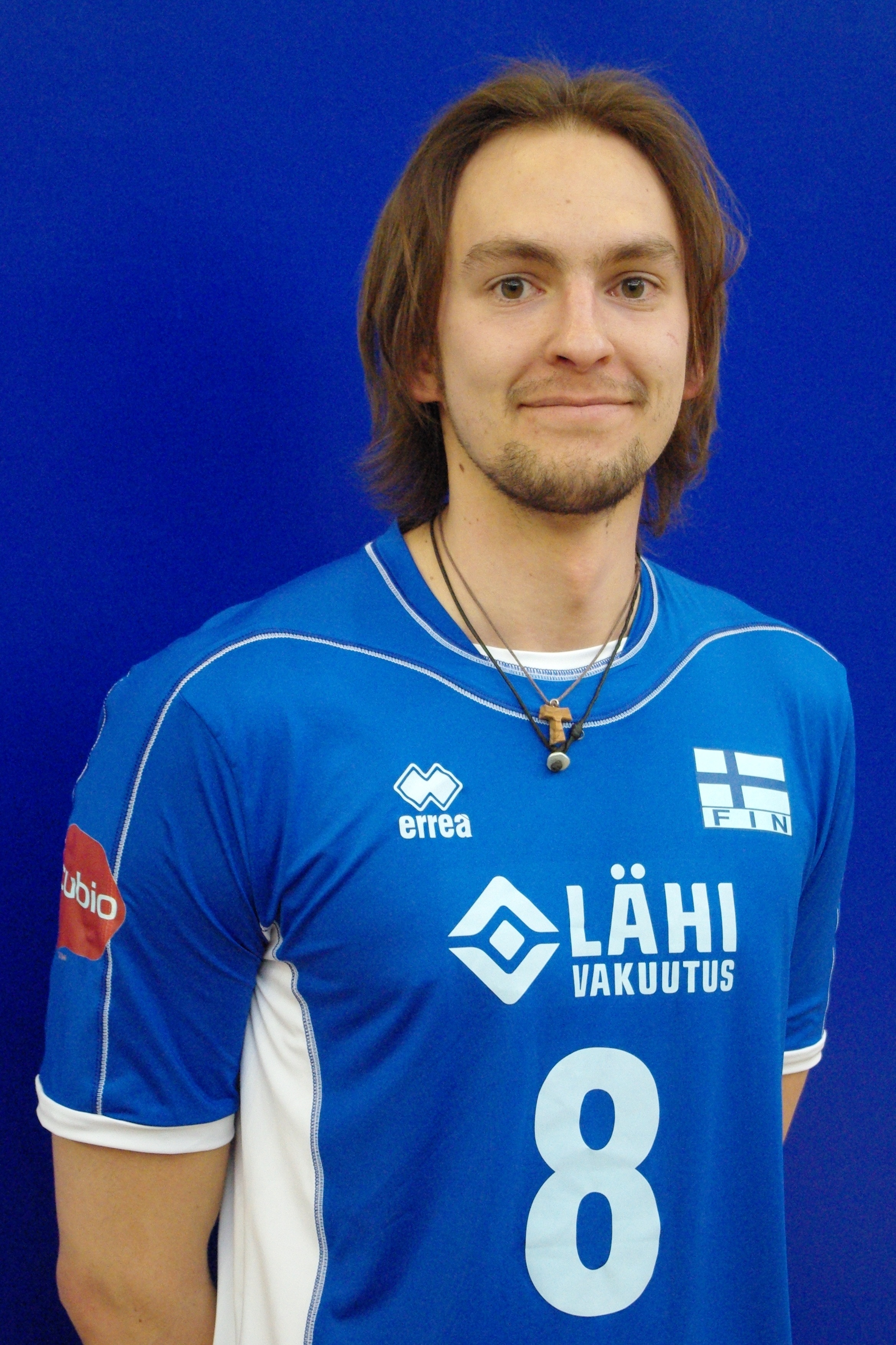 Tuominen Jari